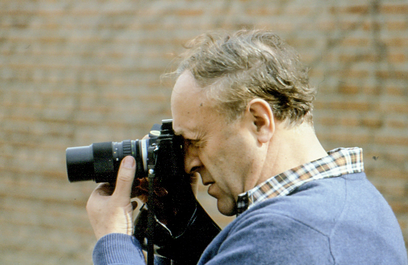 Lajos Hajma